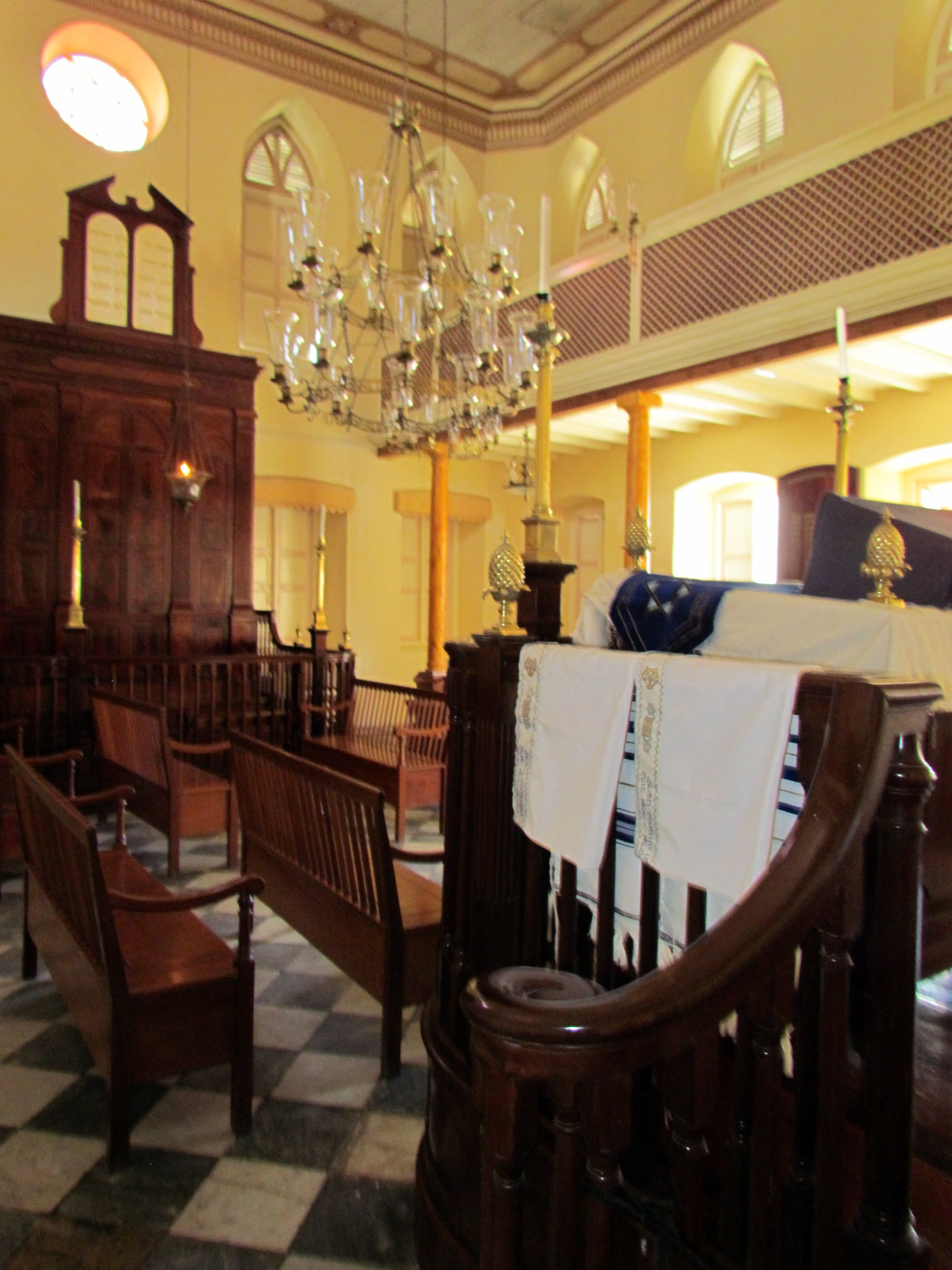 Nidhe Israel Synagogue - Bridgetown, Barbados